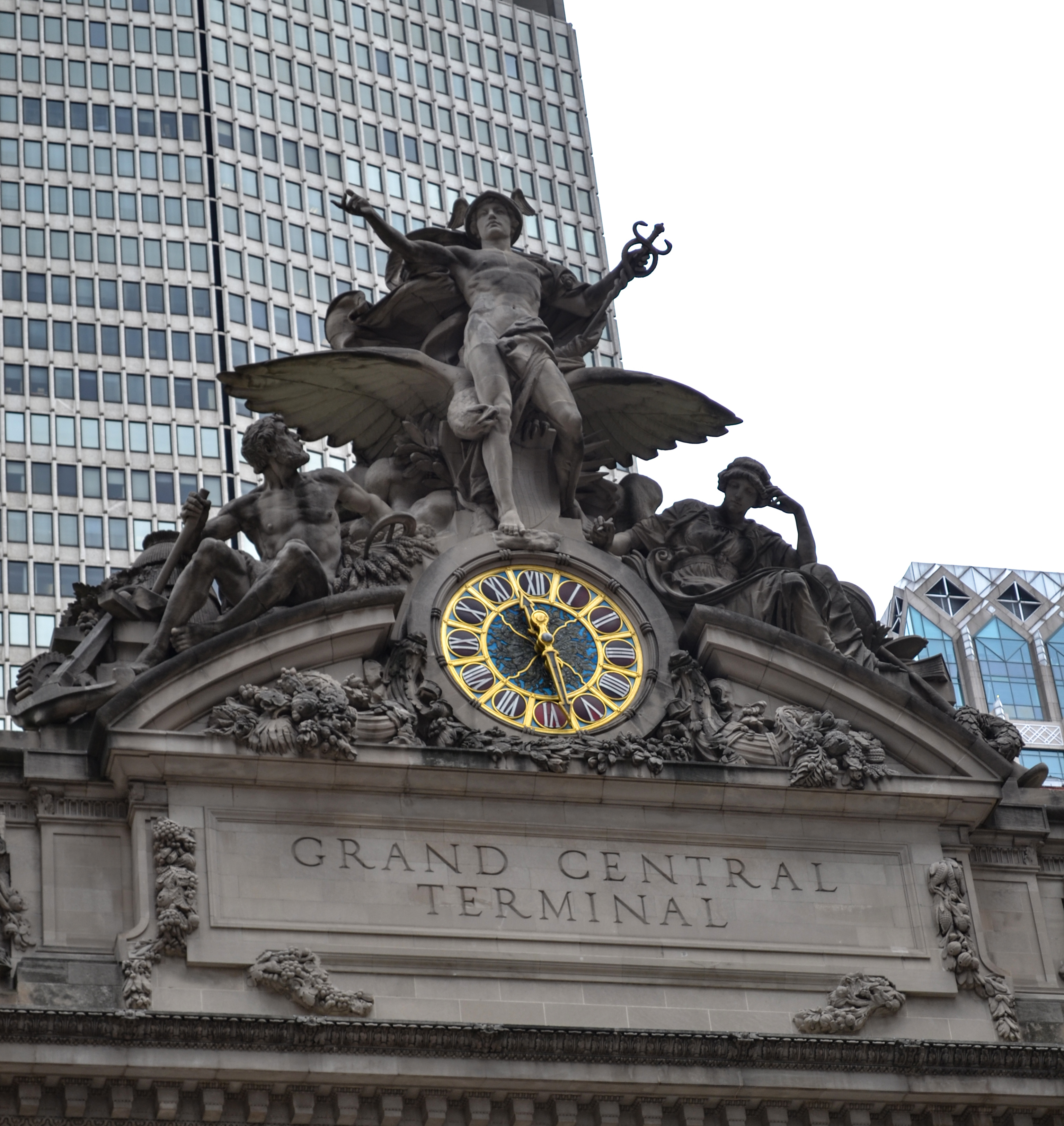 The Mercury Statue Clock.